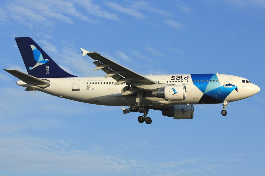 SATA International Airbus A310-300